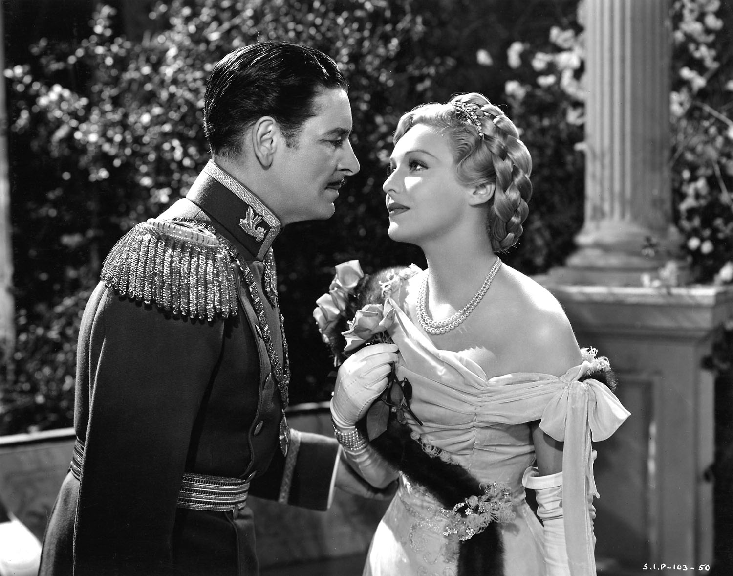 Ronald Colman and Madeleine Carroll in the American film The Prisoner of Zenda (1937) - publicity still.